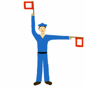 Letter J of the nautical semaphore flag signalling system Source: Martin Hawlisch (User:LosHawlos) My own drawing done in gimp First uploaded to de: in jun-2004